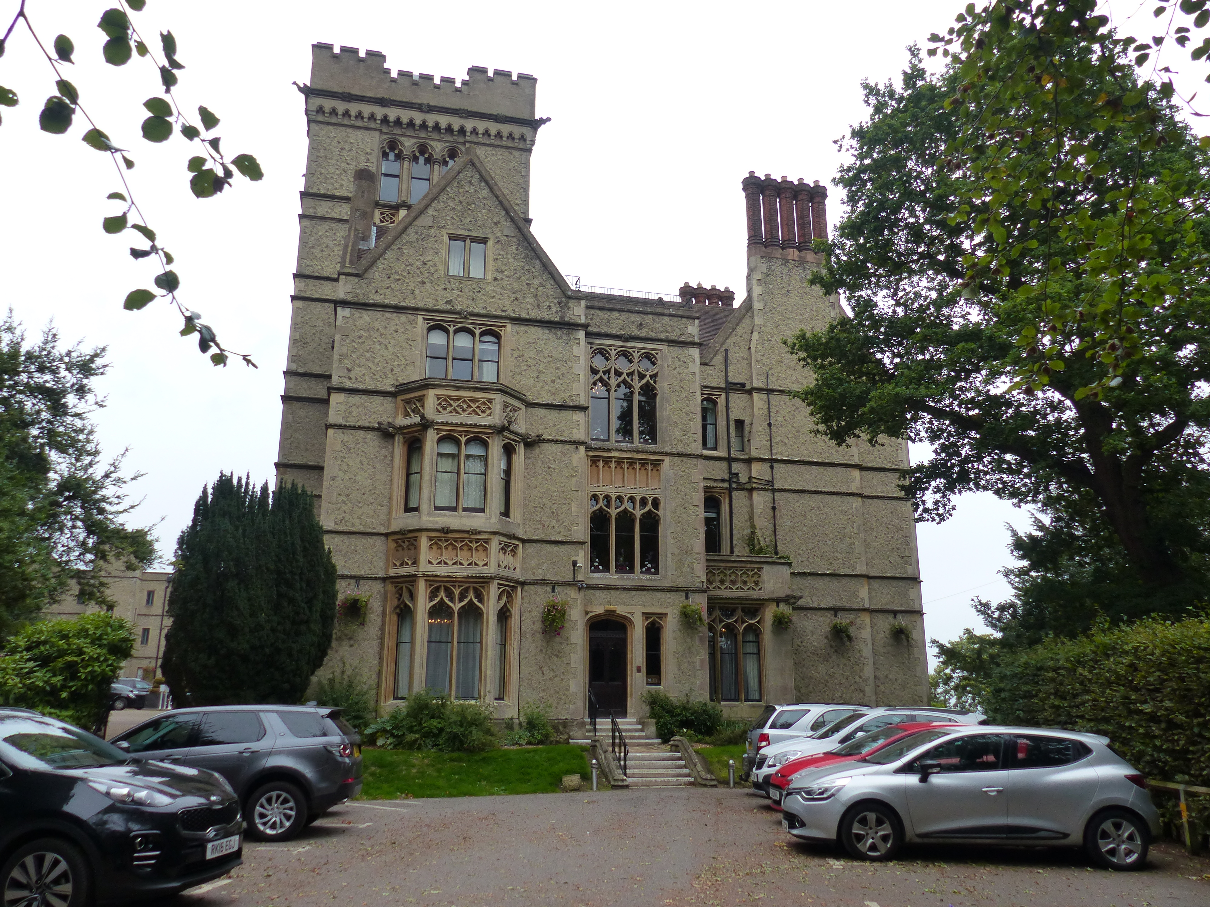 The neo-Gothic splendour of Nutfield Priory hotel